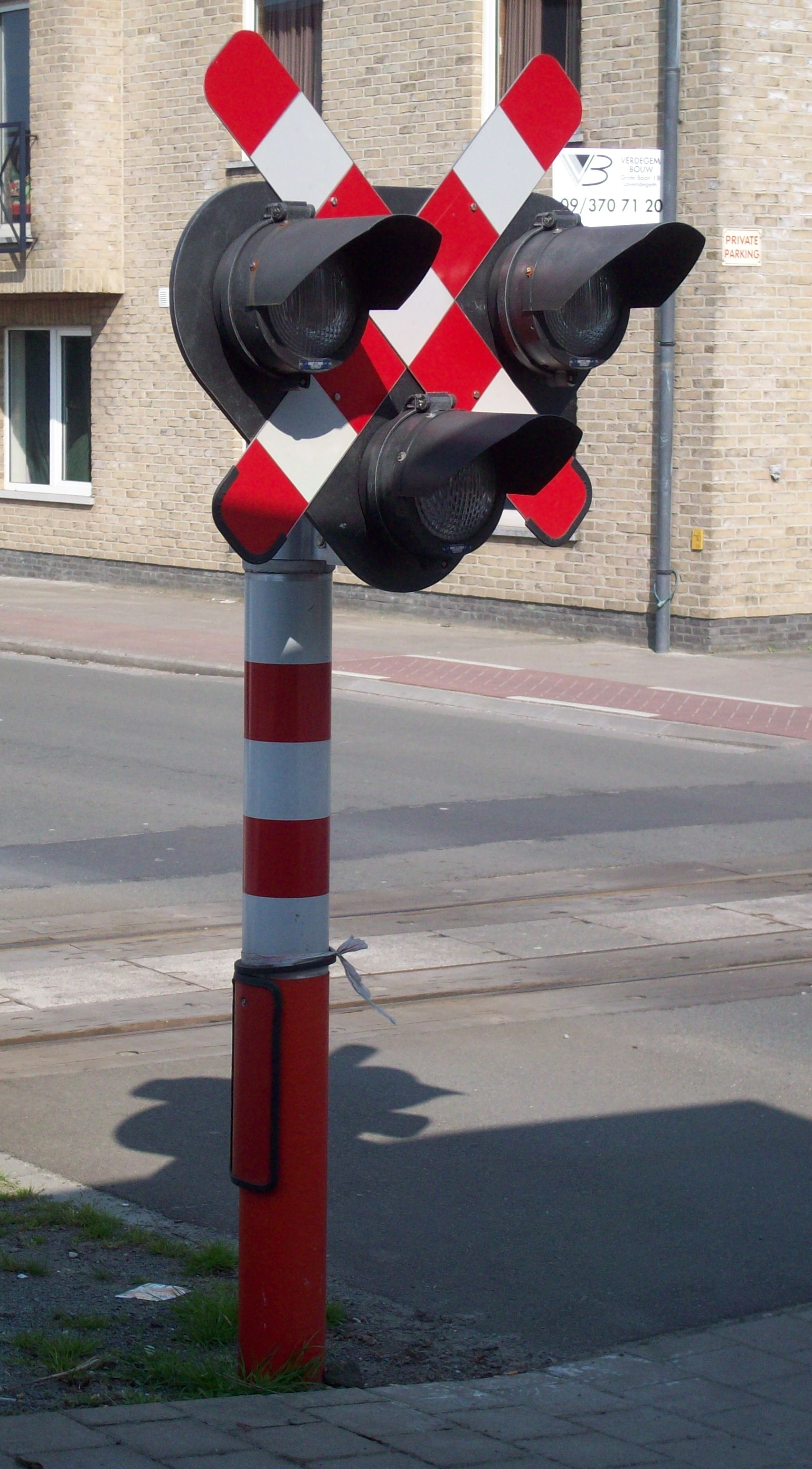 Level_crossing in Belgium